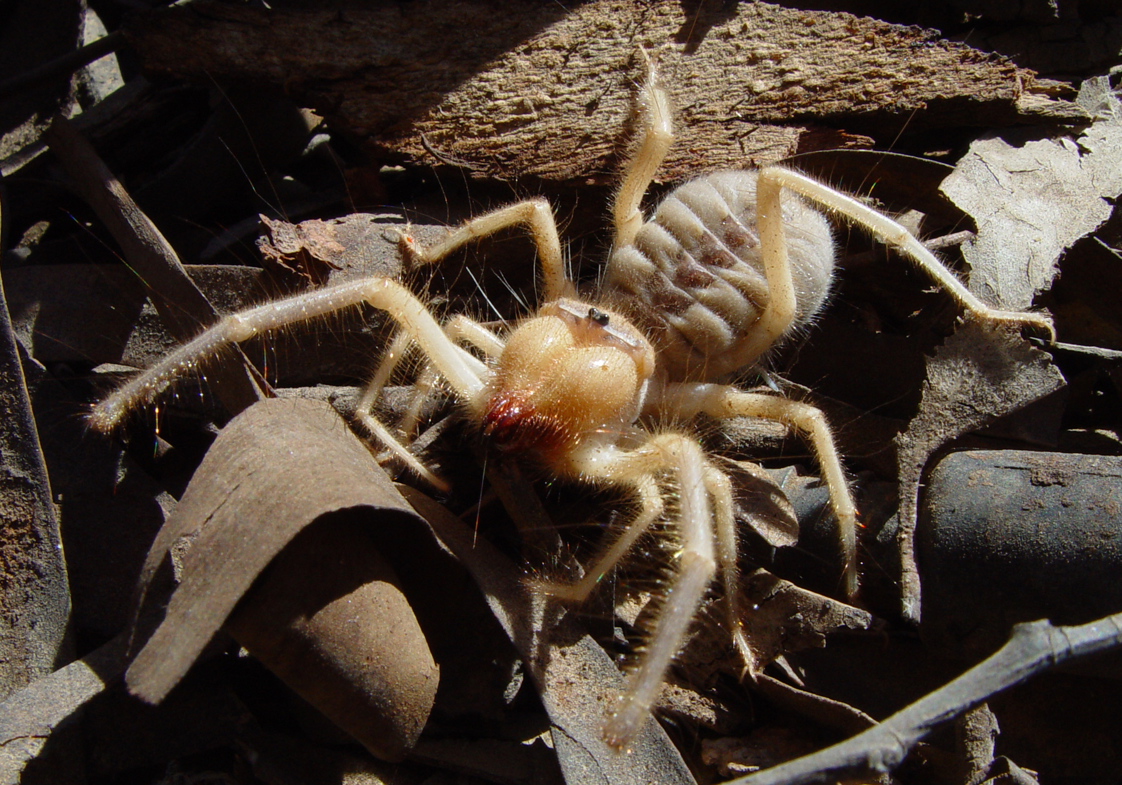 Camel spider (Galeodes) from Israel.